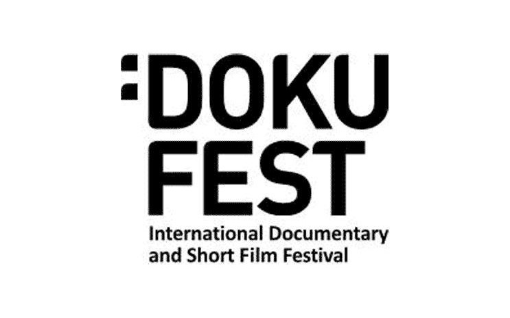 Dokufest logo